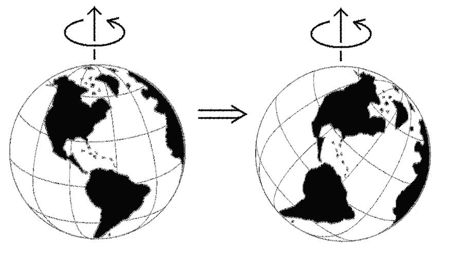 Diagram showing solid-body rotation of the Earth with respect to a stationary spin axis due to true polar wander.